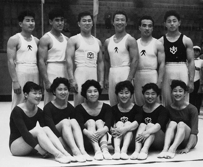 Japan gymnastics team 1960 Olympics